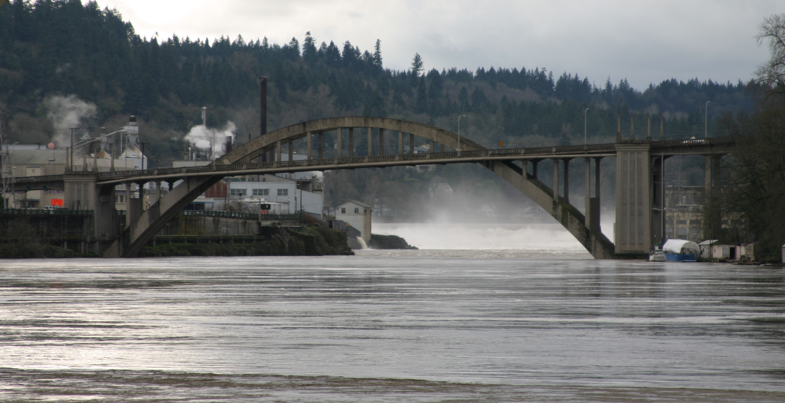 The Oregon City Bridge over the Willamette River in Oregon City, Oregon. The Willamette Falls are behind the bridge and the river is at flood stage.